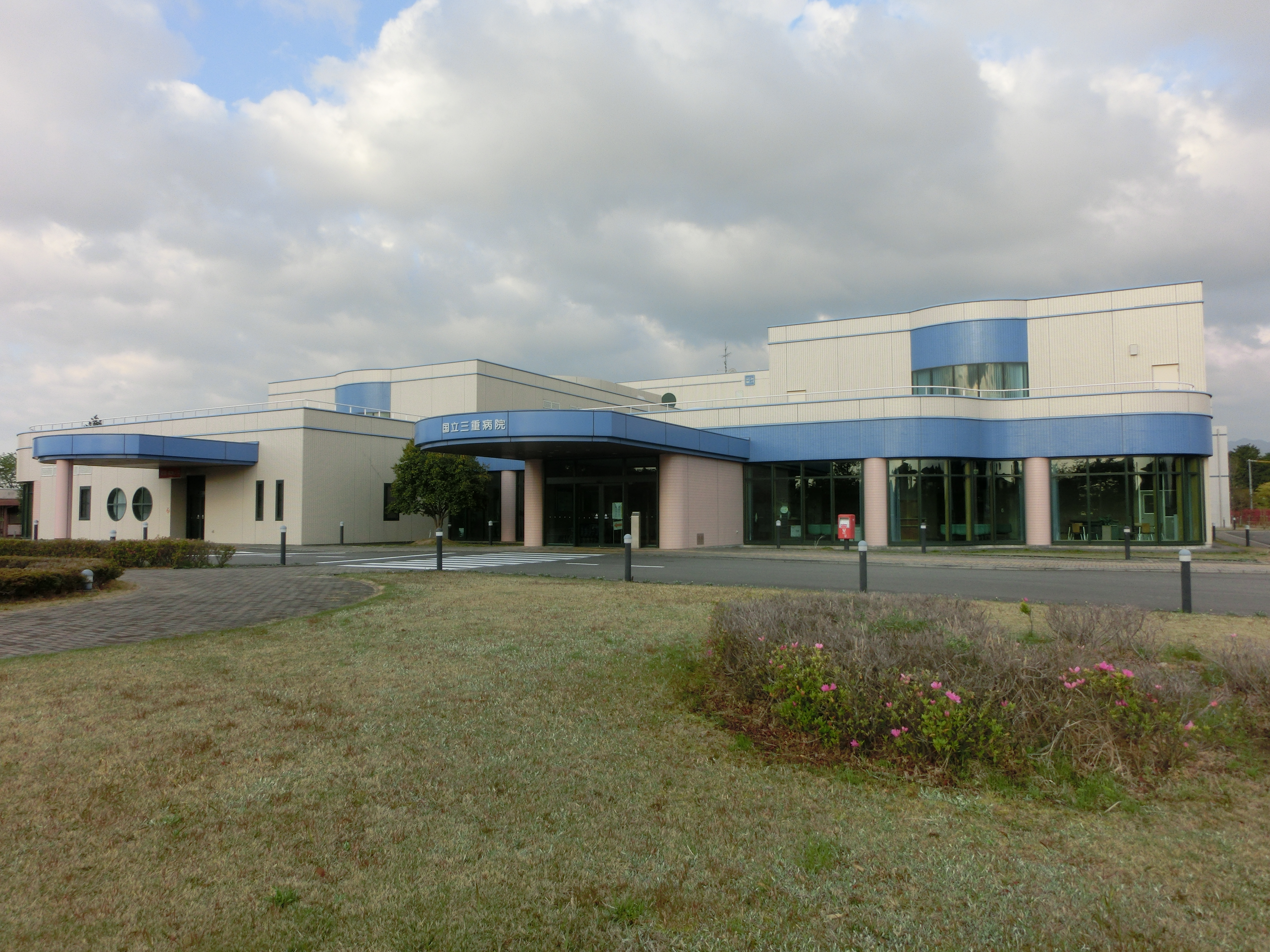 National Hospital Organization Toyohashi Medical Center